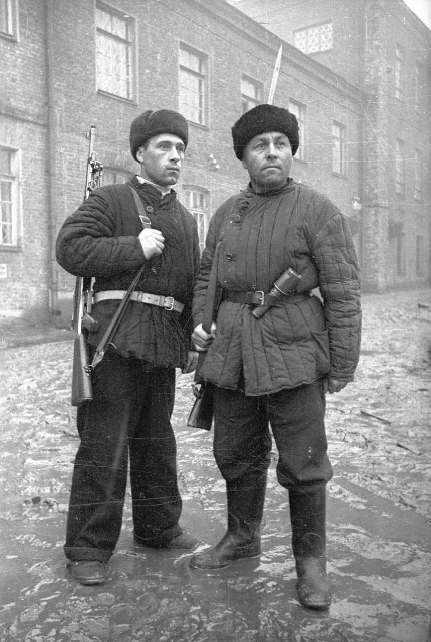 “Moscow workers-militiamen”. Moscow workers-militiamen.